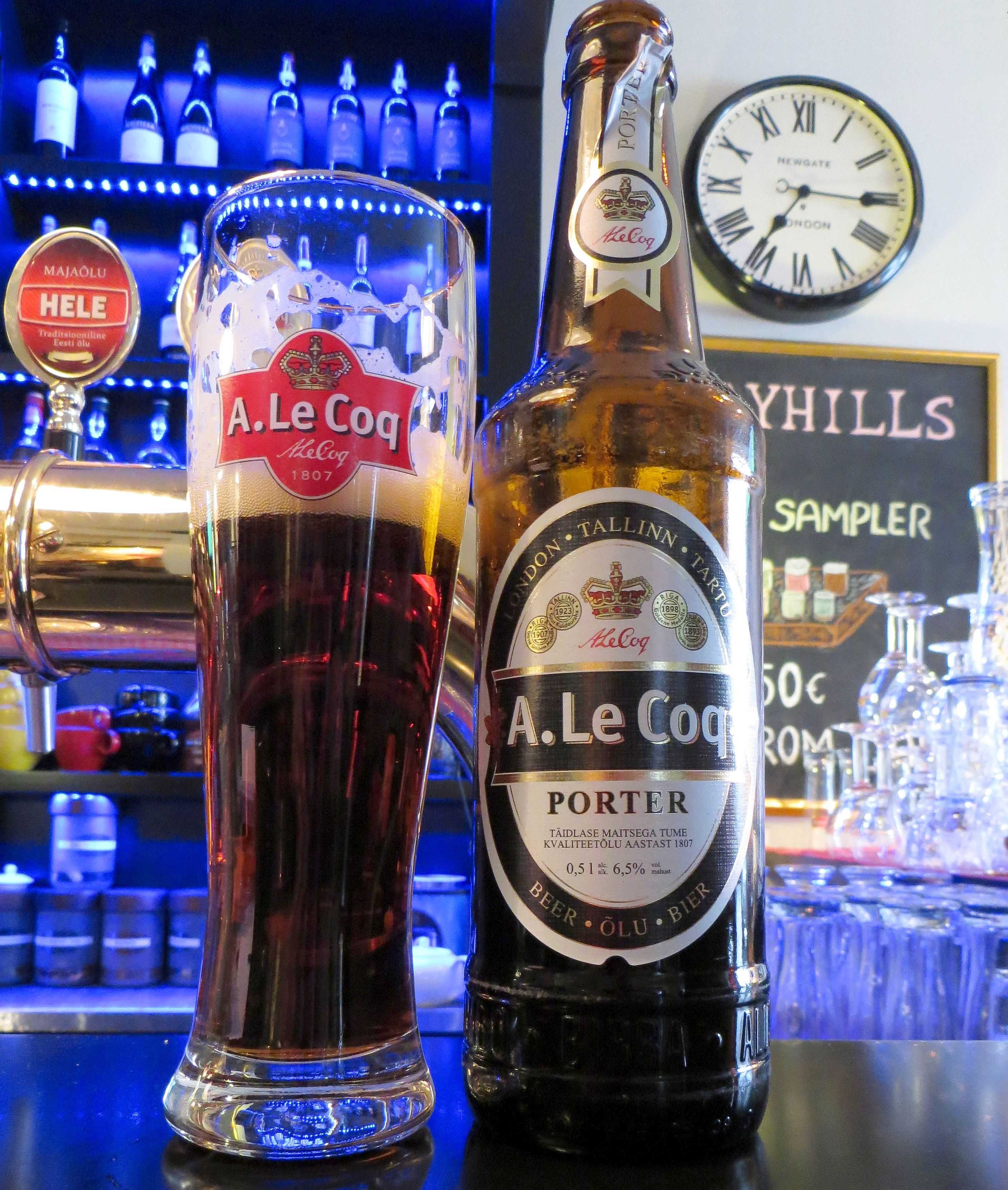 A bottle of Porter from A. Le Coq in Tartu, Estonia, at Clayhills Gastropub in Tallinn. A. Le Coq Porter is a 6.5% abv porter. It poured a clear, red tinged golden brown with a beige head. It sported a malty aroma with notes of ripe fruits and sweet wort. Mouthfeel was medium heavy, silky smooth with a soft carbonation. The taste followed up the aroma with an elegant malt body, there were notes of toasted malt and ripe fruits but no roasted bitterness. It finished malty, with a fairly long malty aftertaste. Very smooth. A. Le Coq Porter is a smooth and very drinkable beer but very different from the dark, roasted porters from modern craft breweries, it was certainly not a Baltic Porter (as claimed by RateBeer) but probably closer to a German dunkel lager or even an übermalty Vienna lager. blog entry